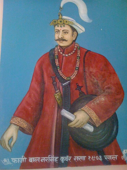 Kaji Bal Narsingh Kunwar, the father of Nepalese PM Jung Bahadur Rana, A courtier in the palace of Rana Bahadur Shah and son-in-law of Thapa Khalak dynasty.